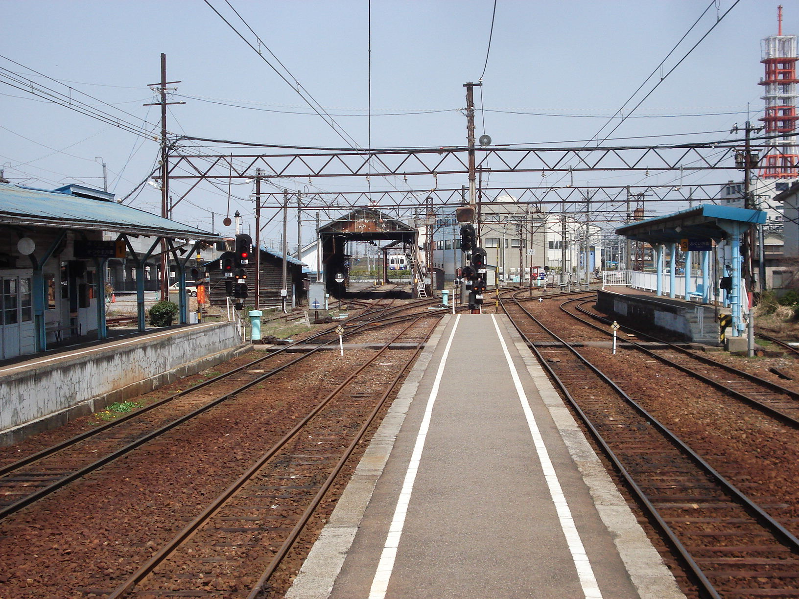 View towards Katsuyama from Fukui-guchi Station Platform 2